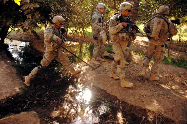 Soldiers from 3rd platoon, Company A, 1st Battalion, 15th Infantry Regiment, 3rd Heavy Brigade Combat Team, 3rd Infantry Division, patrol through an orchard with a mine detector during a cordon and search of a farm in Salman Pak, Iraq, Sept. 21.